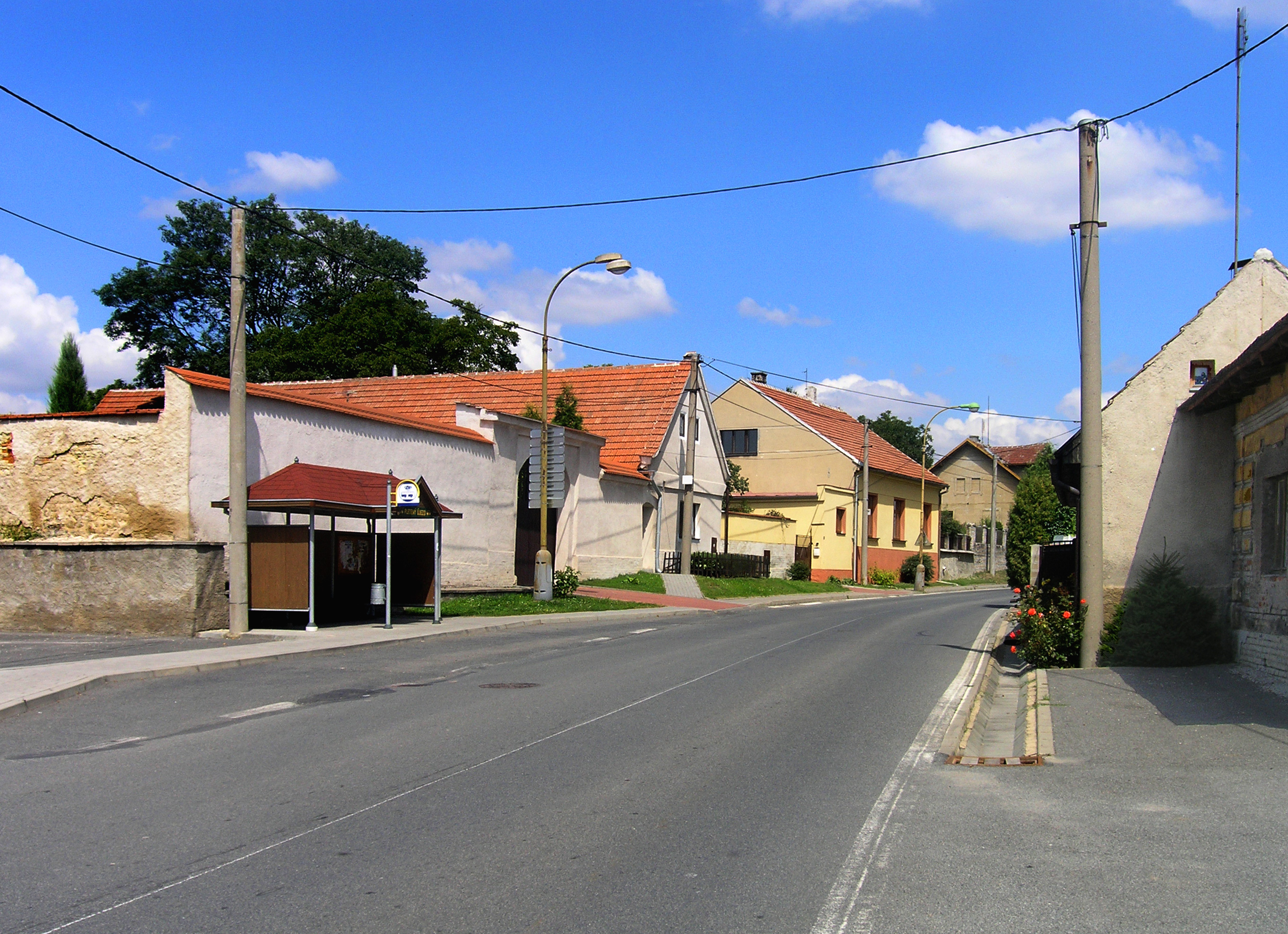 Kladenská street in Pletený Újezd, Czech Republic